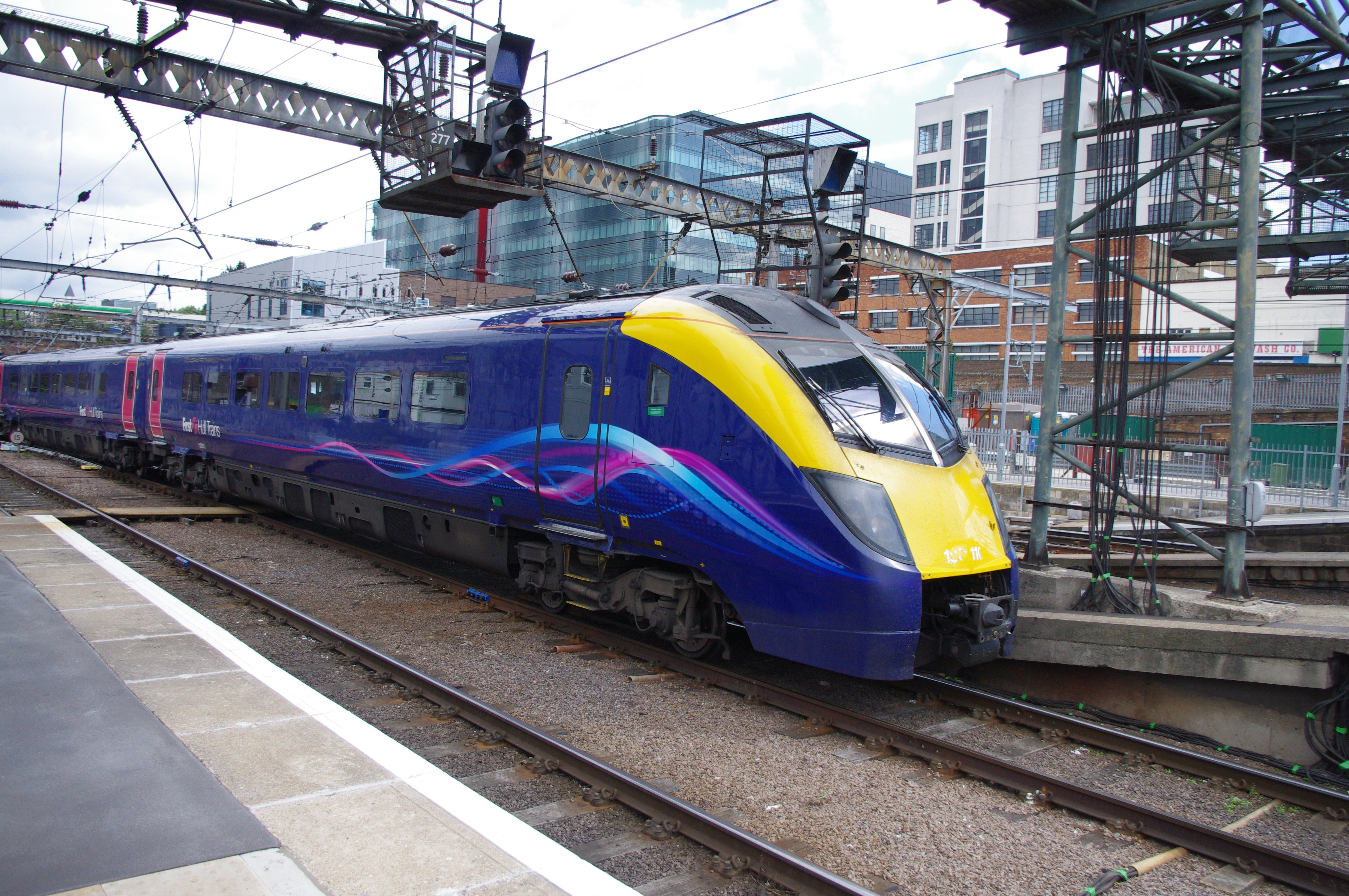 First Hull Trains Class 180 "Adelante" No. 180110 arrives at London King's Cross.